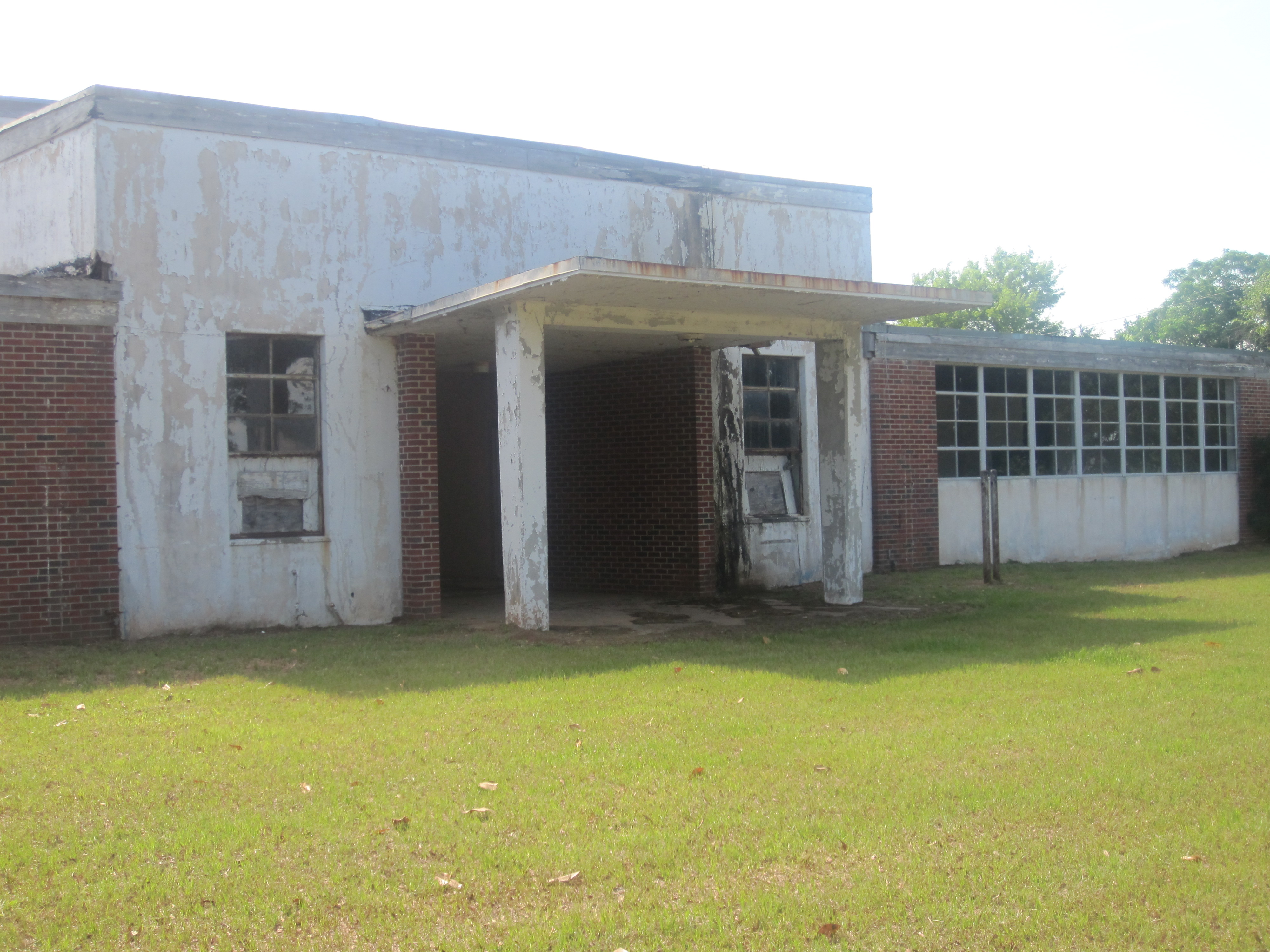 Abandoned Baptist school near Derry and Melrose, Louisiana. I took photo with Canon camera.